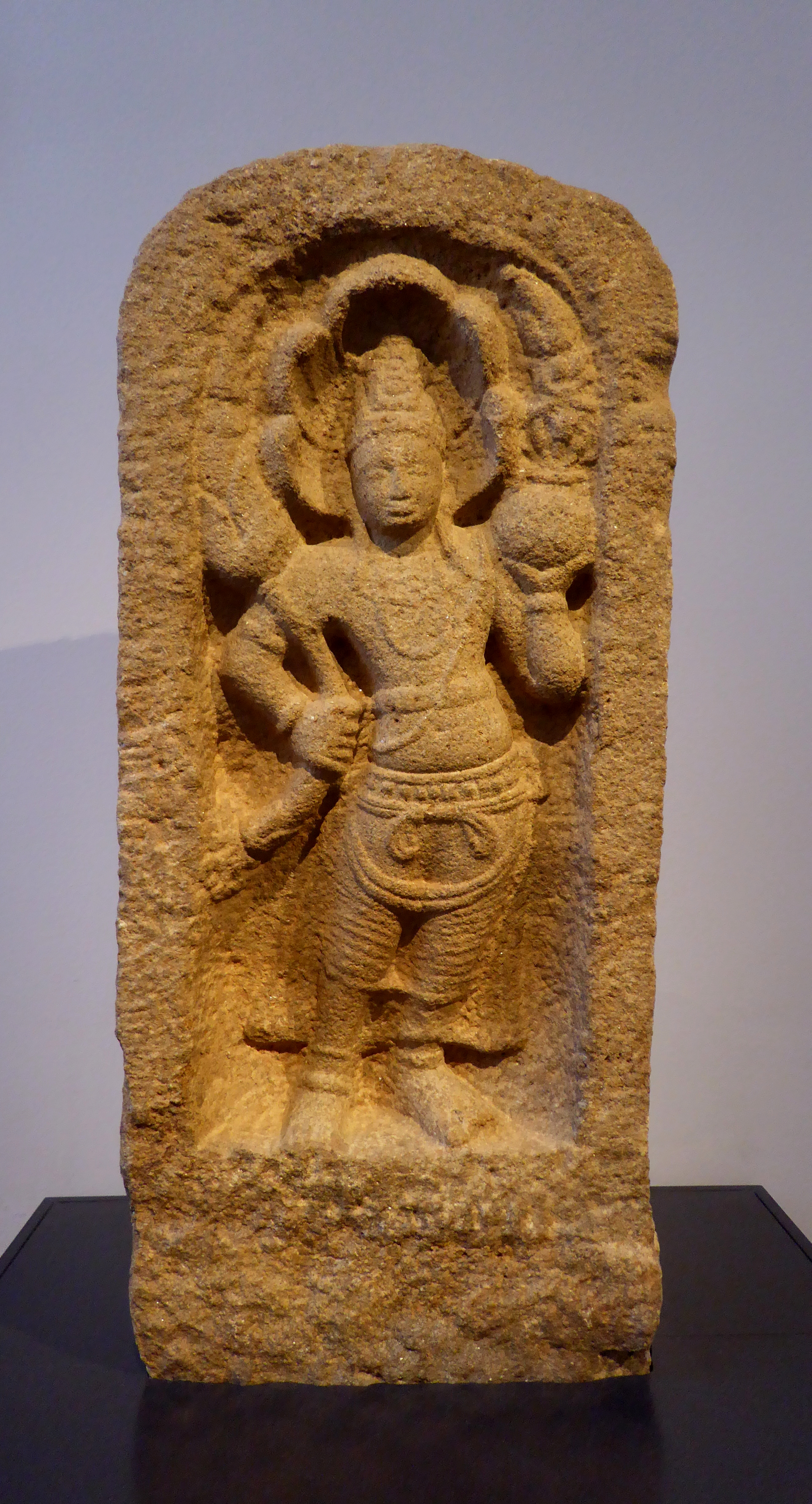 A granite nagaraja guardstone from Sri Lanka, dating to the Anuradhapura period (800 to 900 CE). Now on display at the Victoria and Albert Museum in West London (Museum number IS.8-1966).